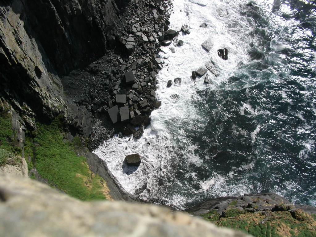 Looking over the Cliffs of Moher, Ireland